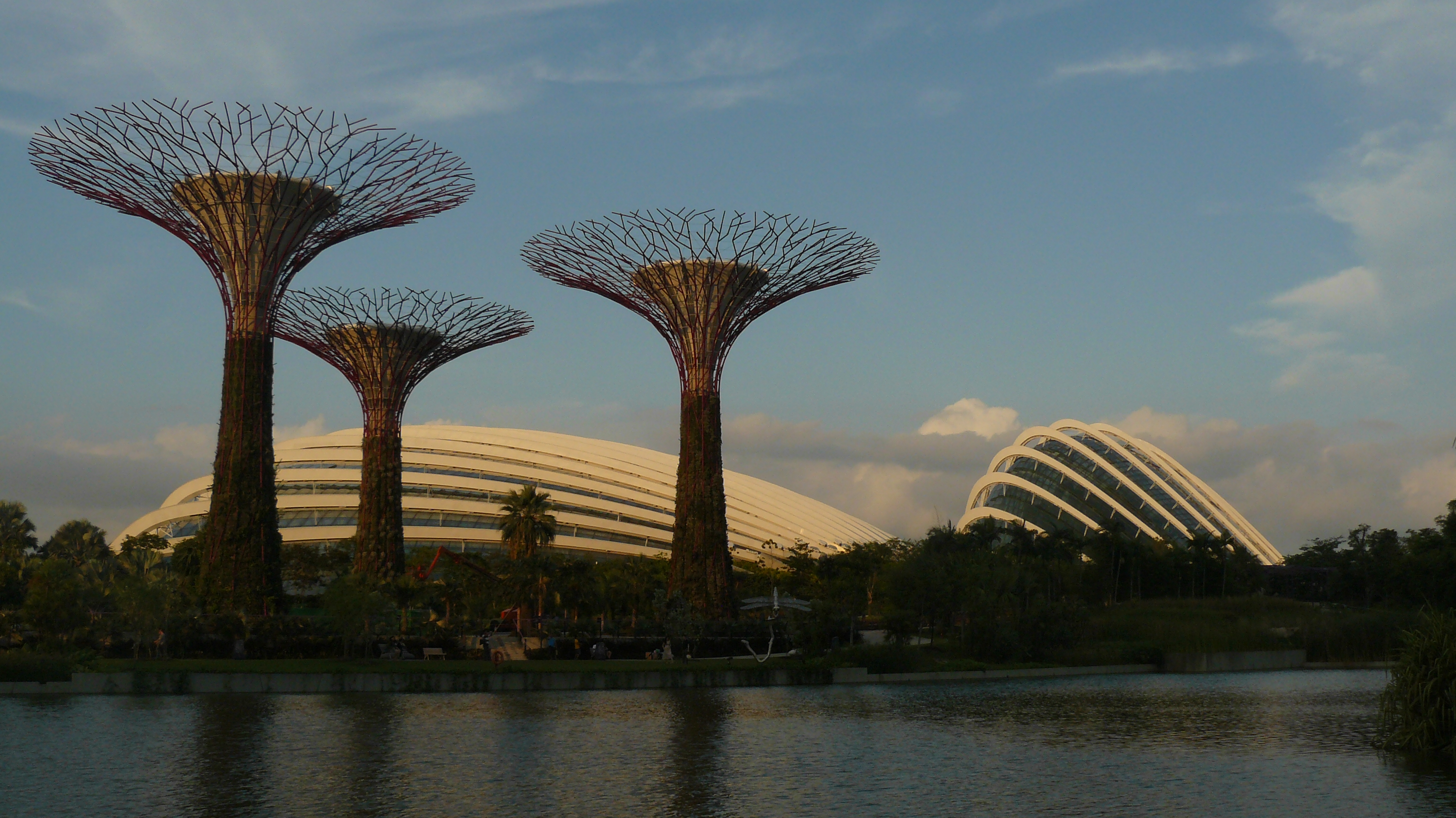 Singapore, view to Gardens by the Bay